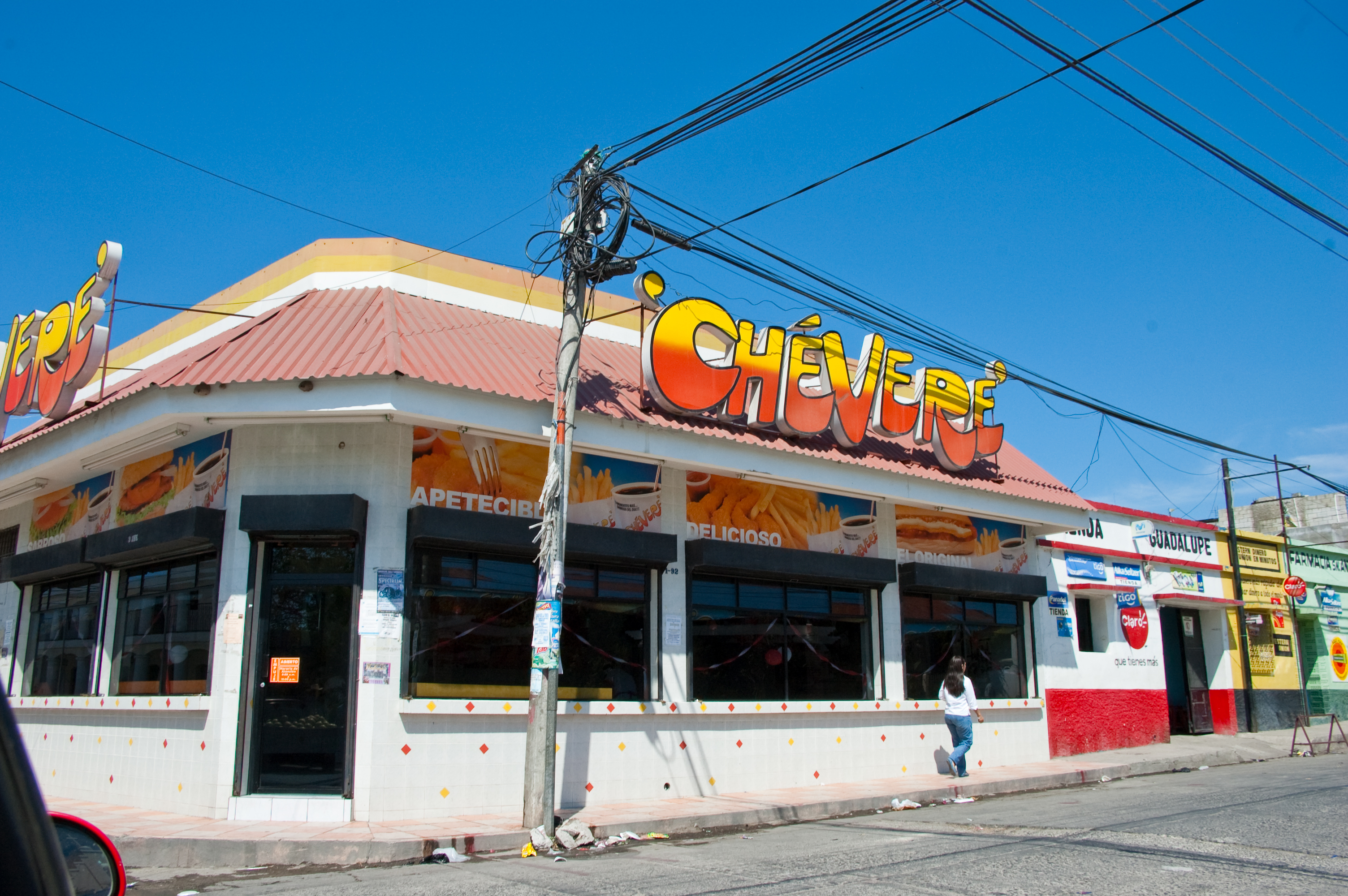 The legendary Chevere hot dogs restaurant across from the municipal palace in Ipala